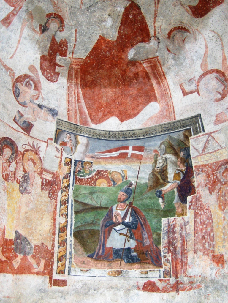 Аҧсшәа: fresco in the main apse